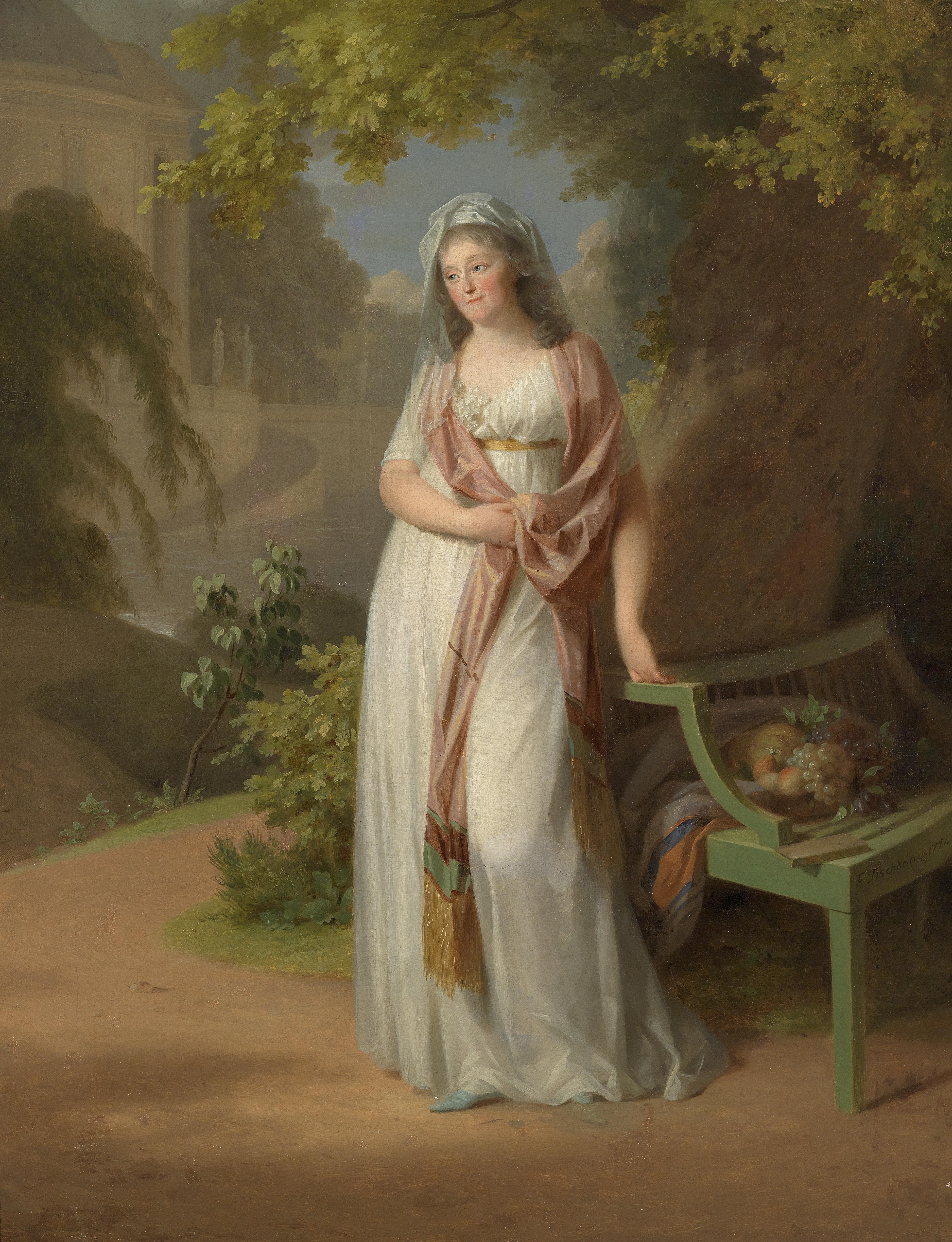 Portrait of Luise von Anhalt-Dessau (1750-1811)